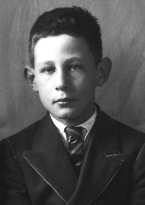 Young René Lévesque